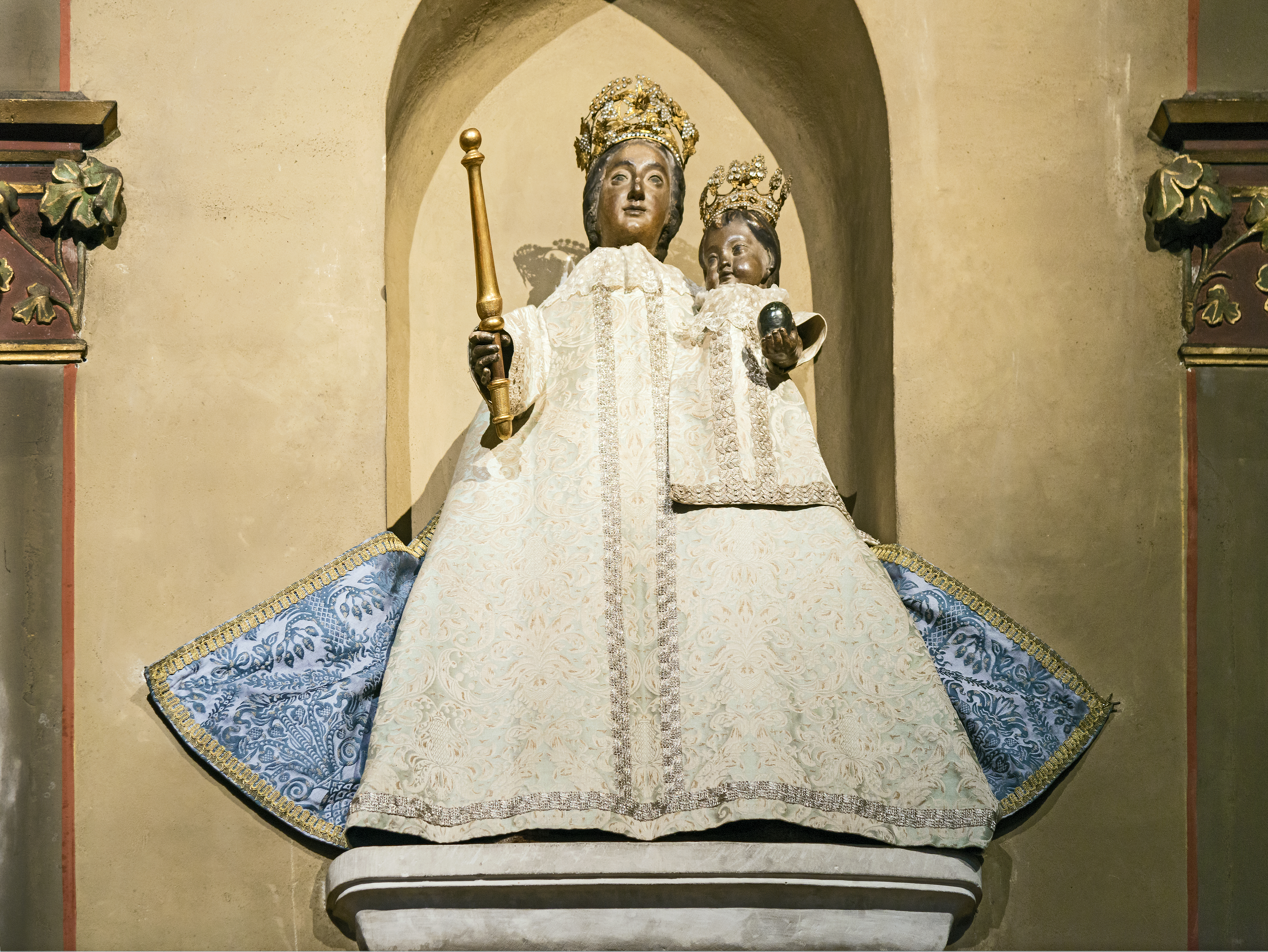 Notre-Dame du Taur from Toulouse - Notre-Dame du rempart - Gilded wooden statue of the eighteenth.